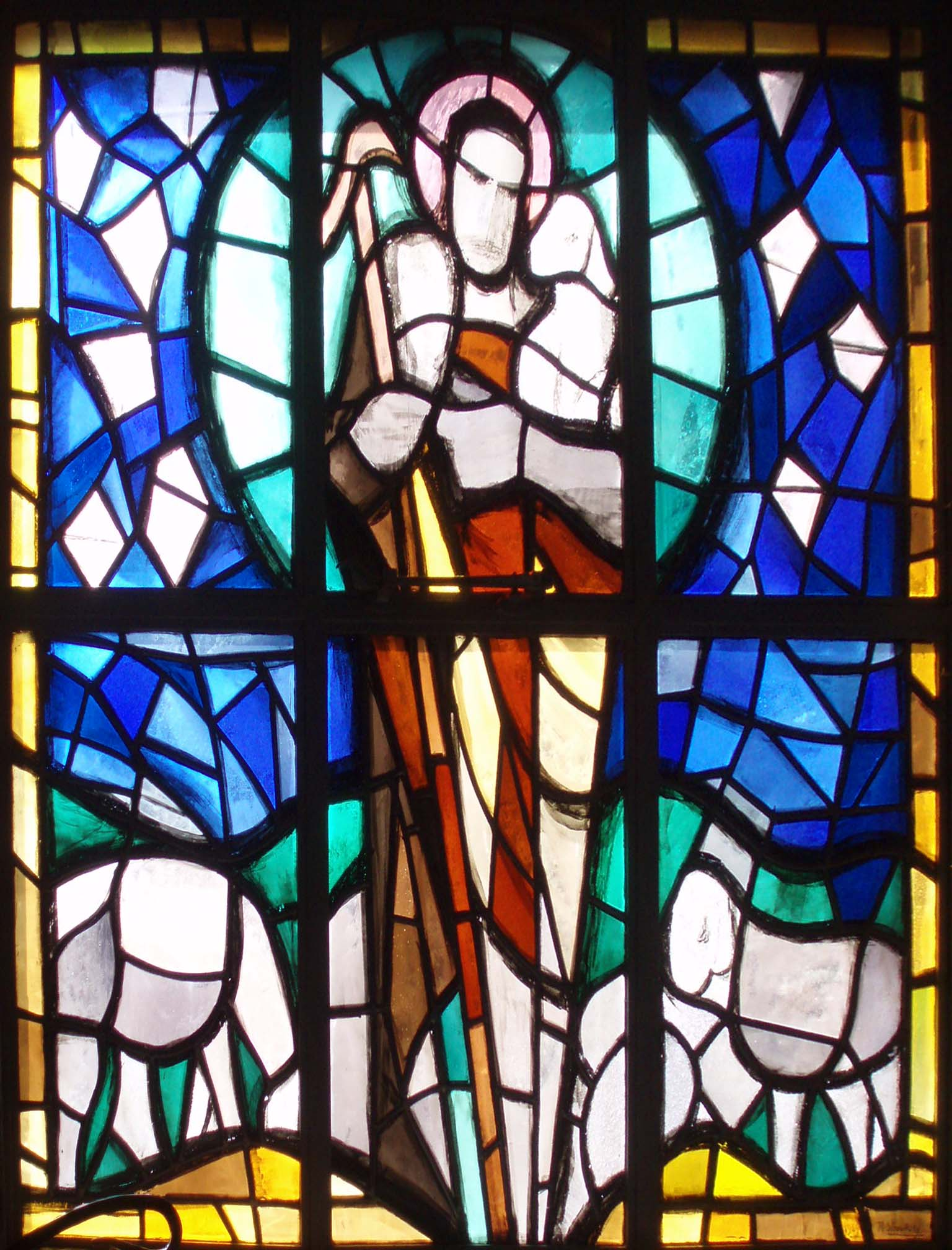 Stained glass window of the Good Sheperd, made by Théodore Strawinsky, St. Martins Church, Gennep, Netherlands